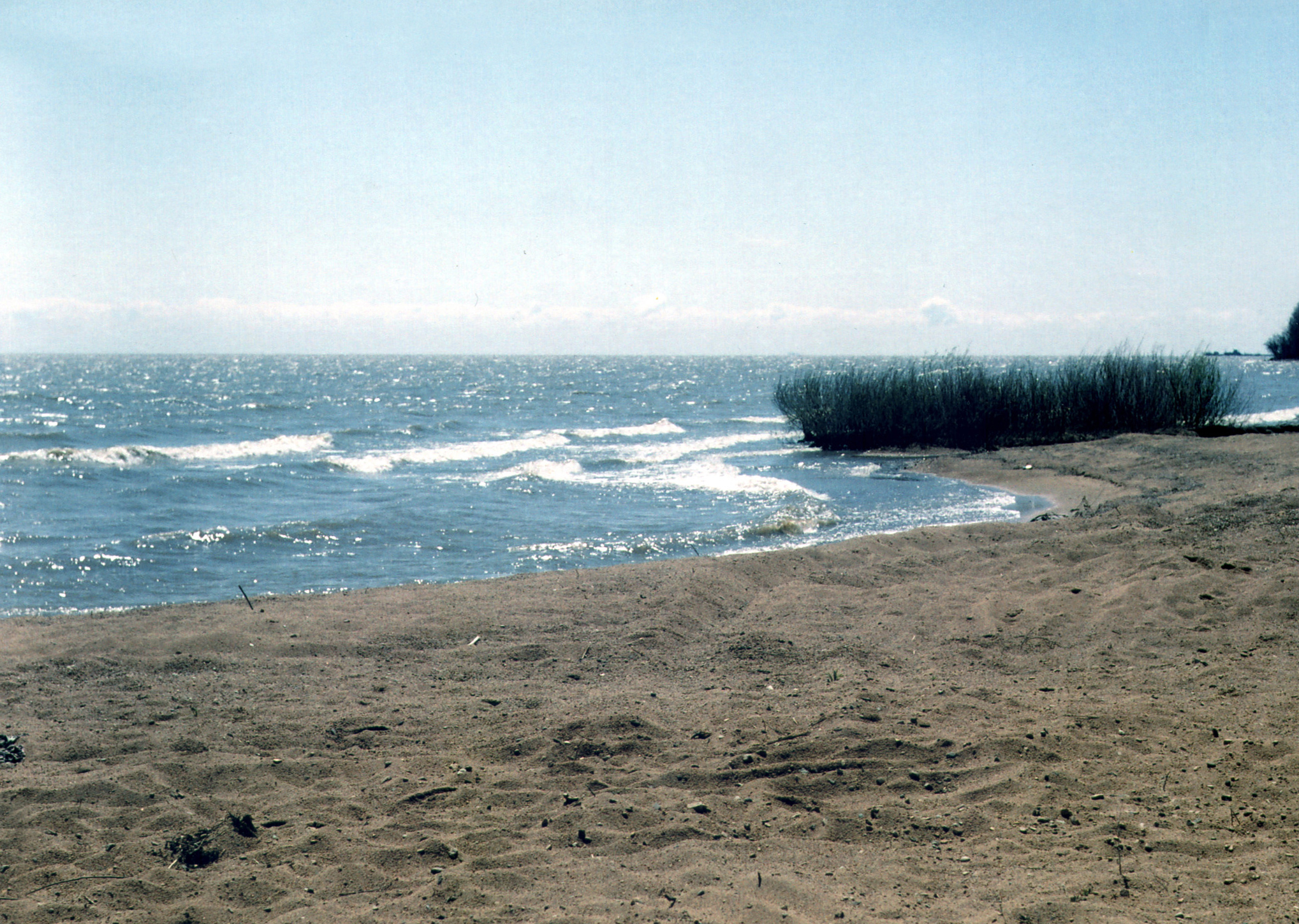 Khanka lake